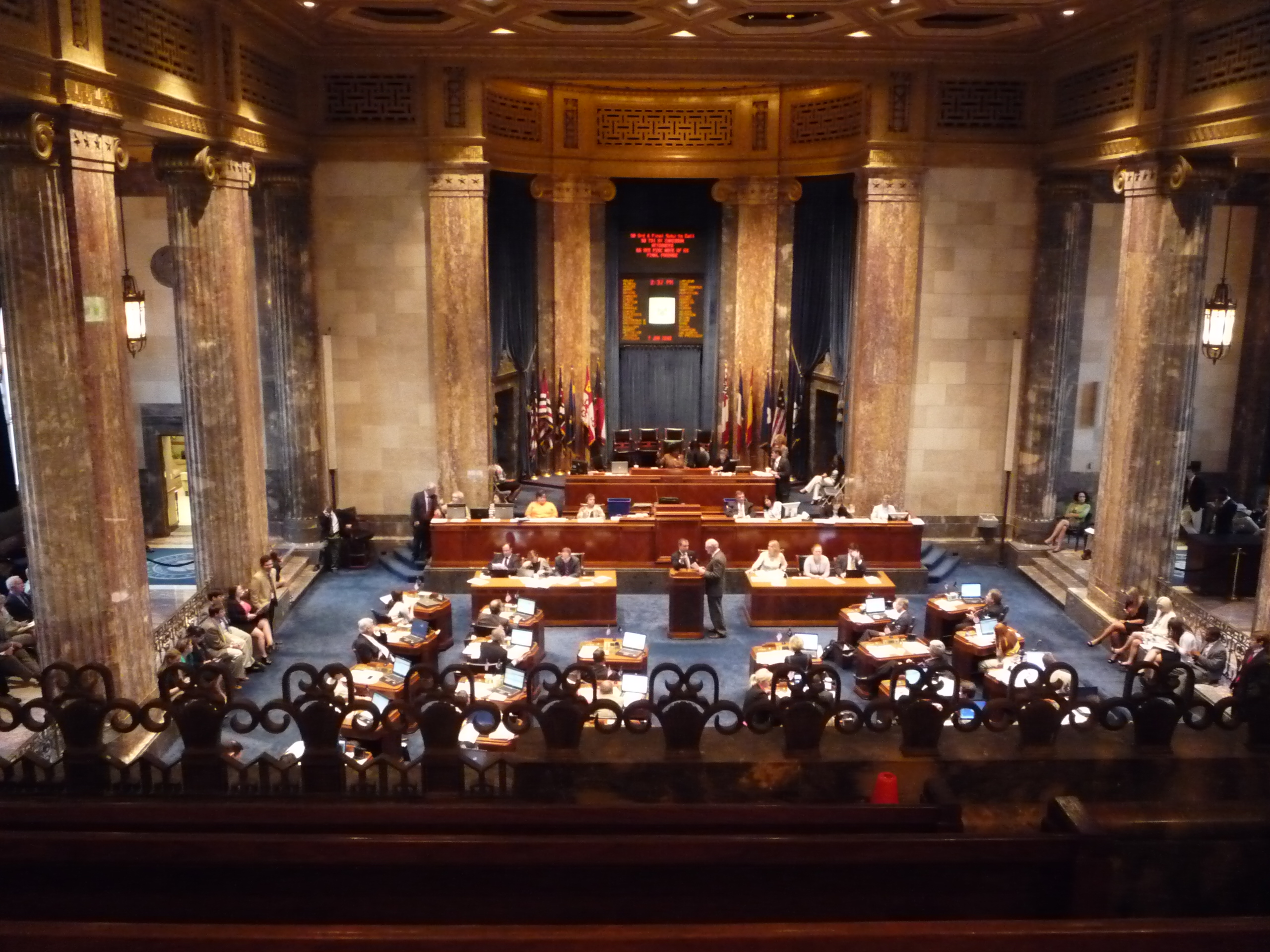 Baton Rouge, Louisiana. Goverment session in the State Capitol Building.